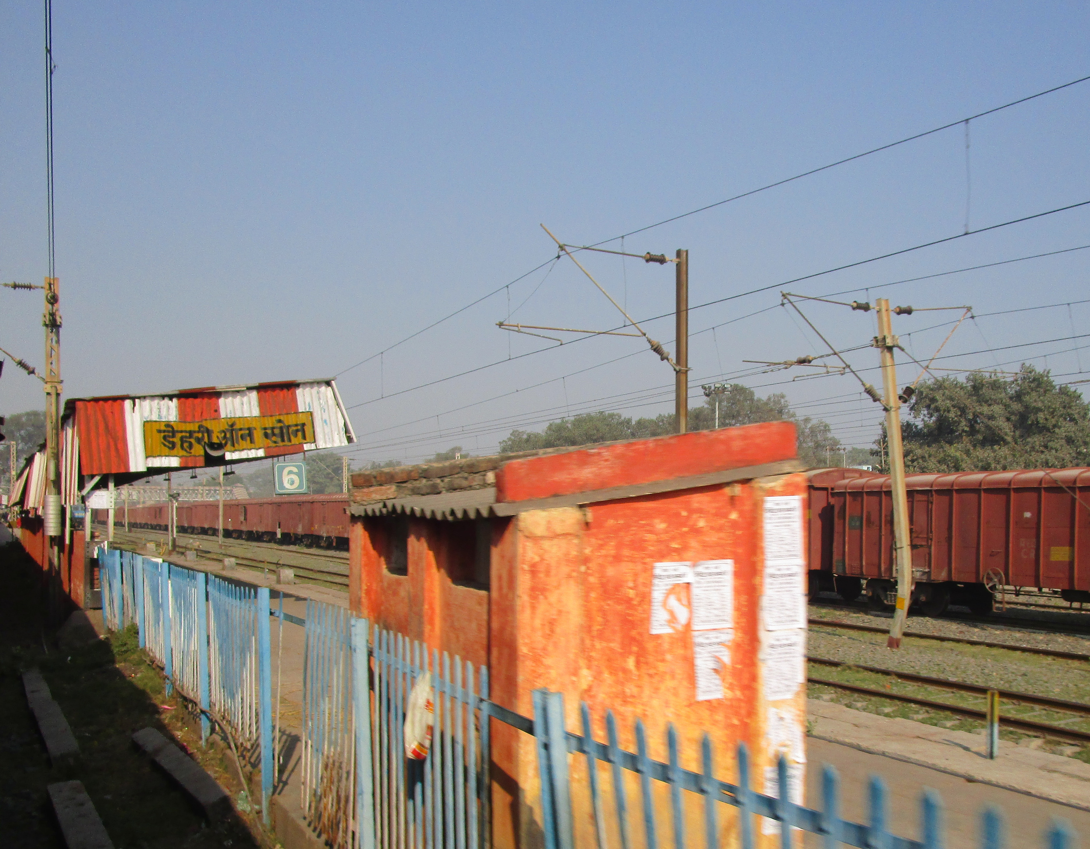 Dehri-on-Sone railway station platform no. 6